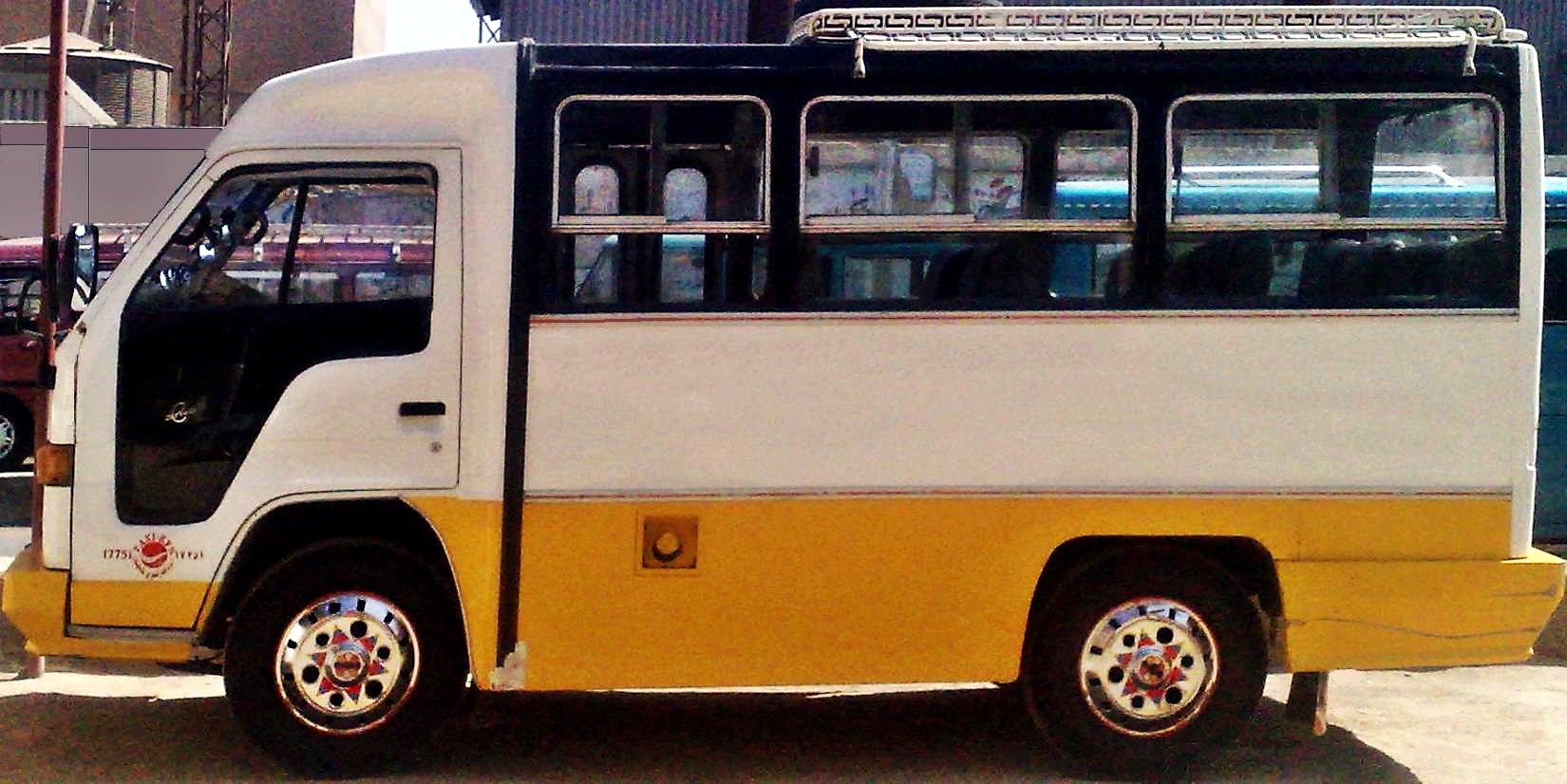 Public Bus in Desouk